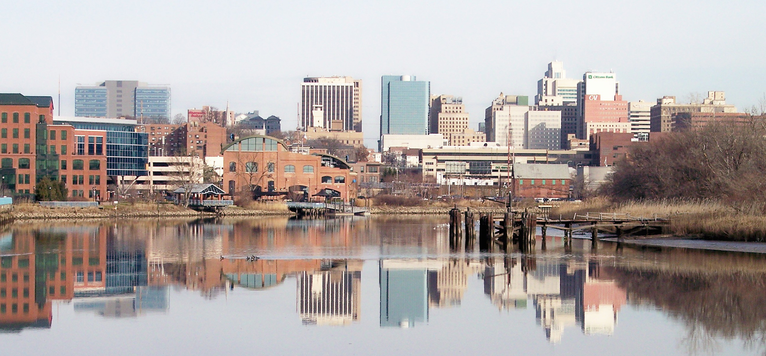 Downtown Wilmington, Delaware and the Christina River